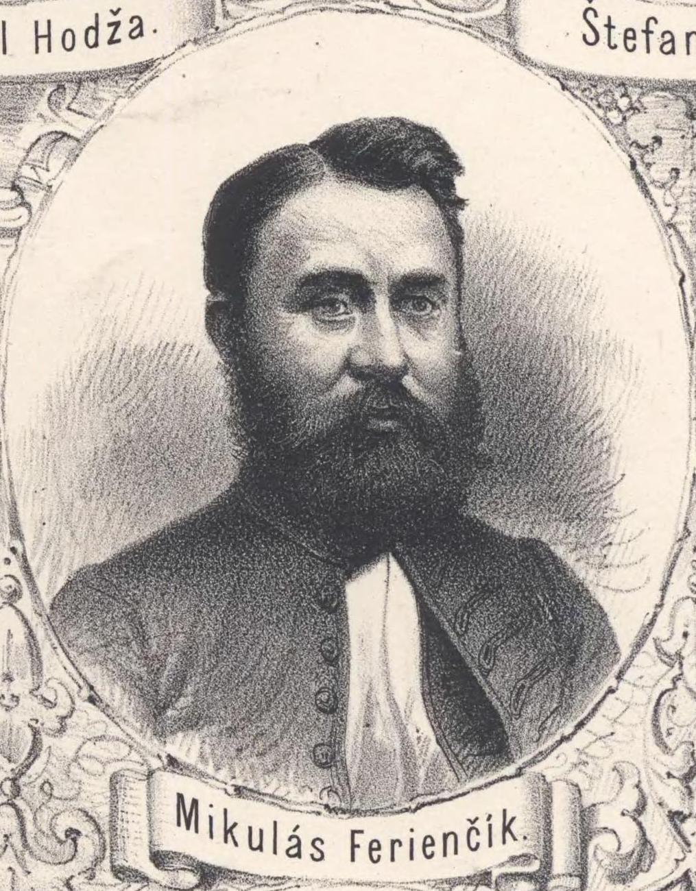 Portrait of Mikuláš Štefan Ferienčík (1825 - 1881), Slovak journalist and writer. Picture cropped from a gallery of famous Slovaks.